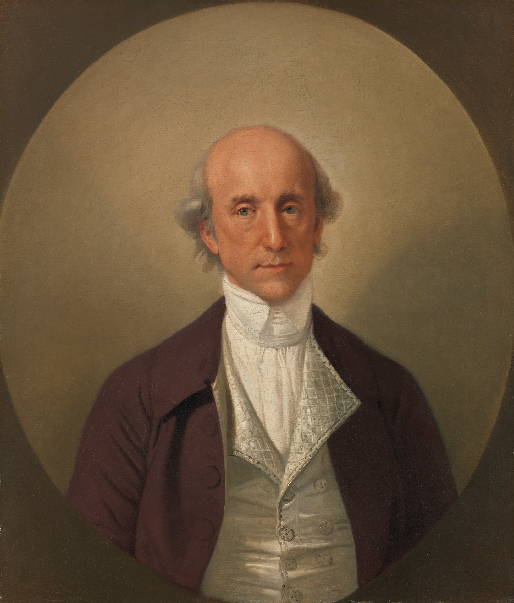 Portrait of Warren Hastings